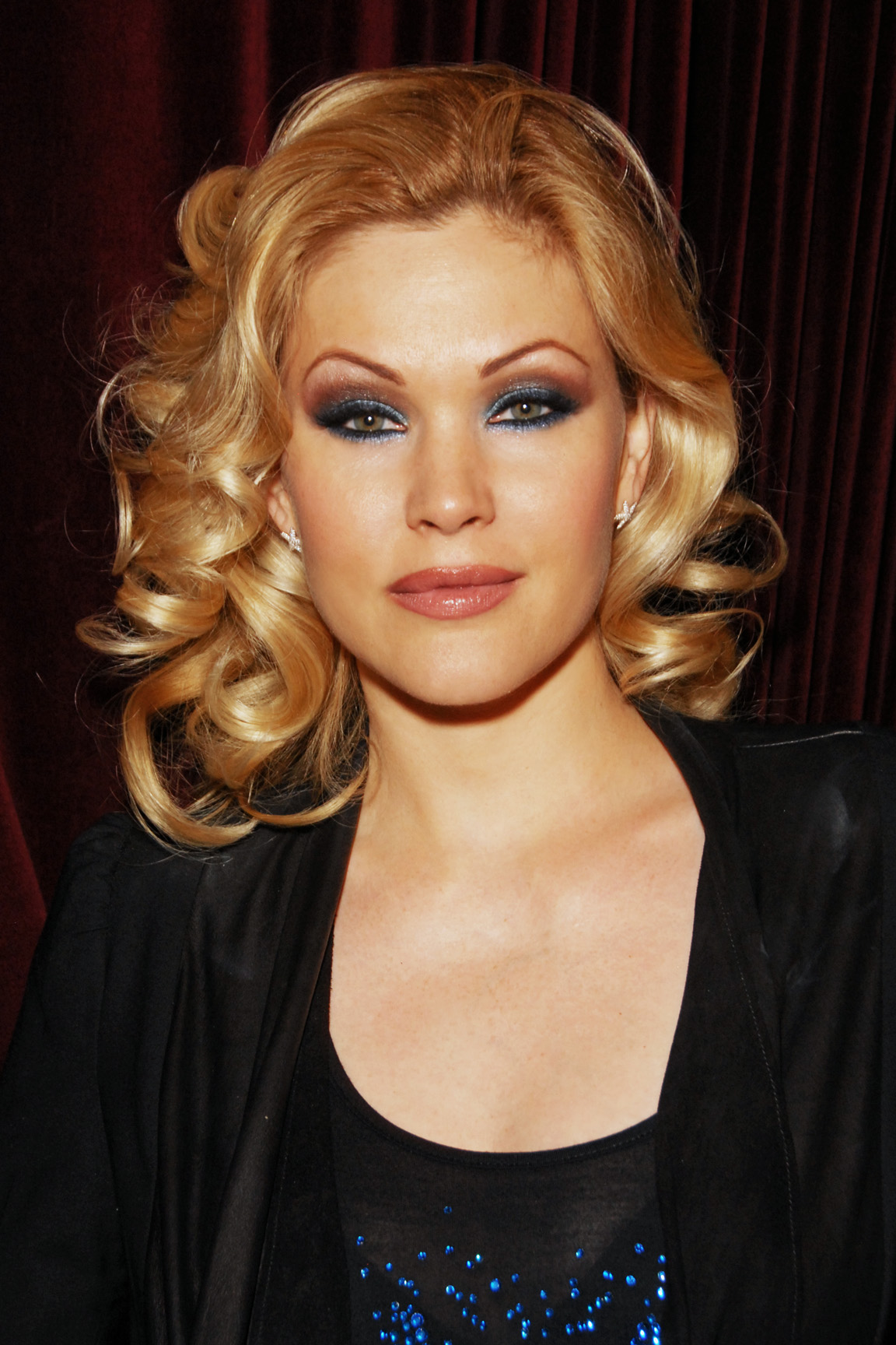 Shanna Moakler at a Party for Miss California 2009: Nicole Johnson at The Crown Bar, Hollywood, CA of May 1, 2010 - Photo by Glenn Francis of